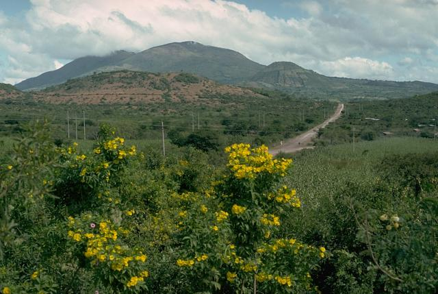 Ipala is part of a cluster of closely spaced small stratovolcanoes and cinder cone fields in SE Guatemala.